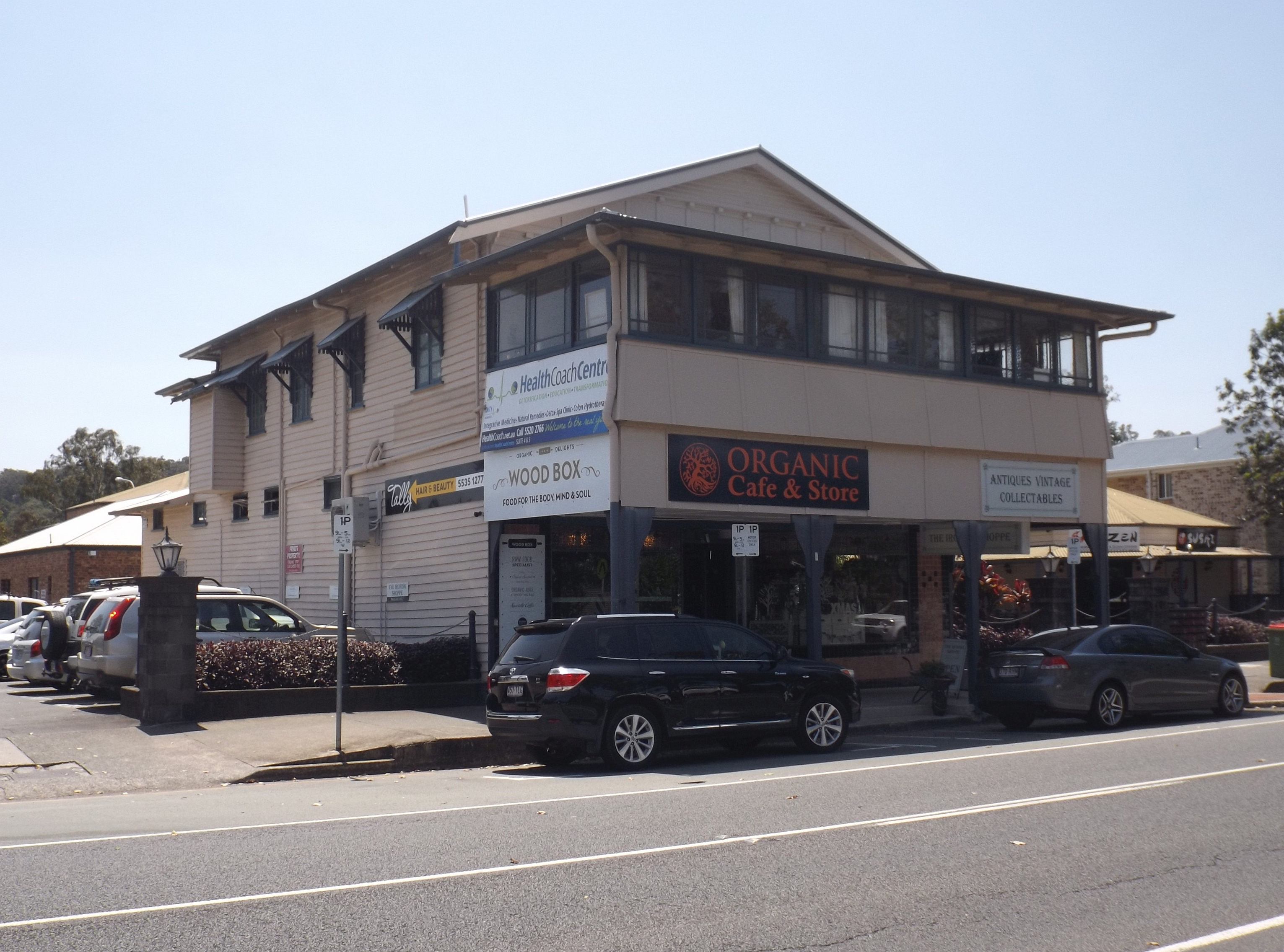 Photo of West Burleigh Store at Burleigh Heads, Gold Coast City, Queensland, Australia.